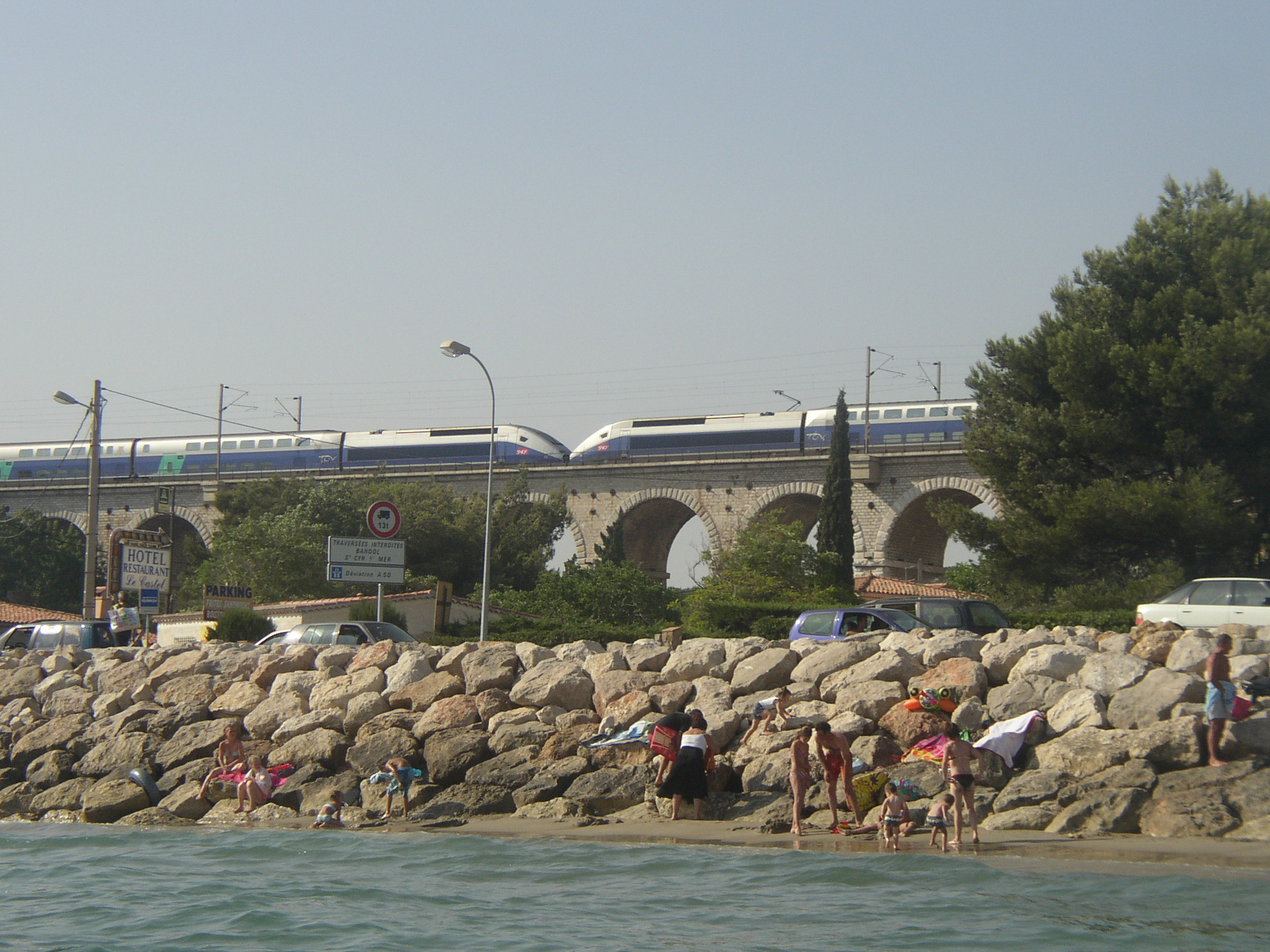 Sight from the sea of couple of French TGV Duplex at Bandol near Toulon, Var.